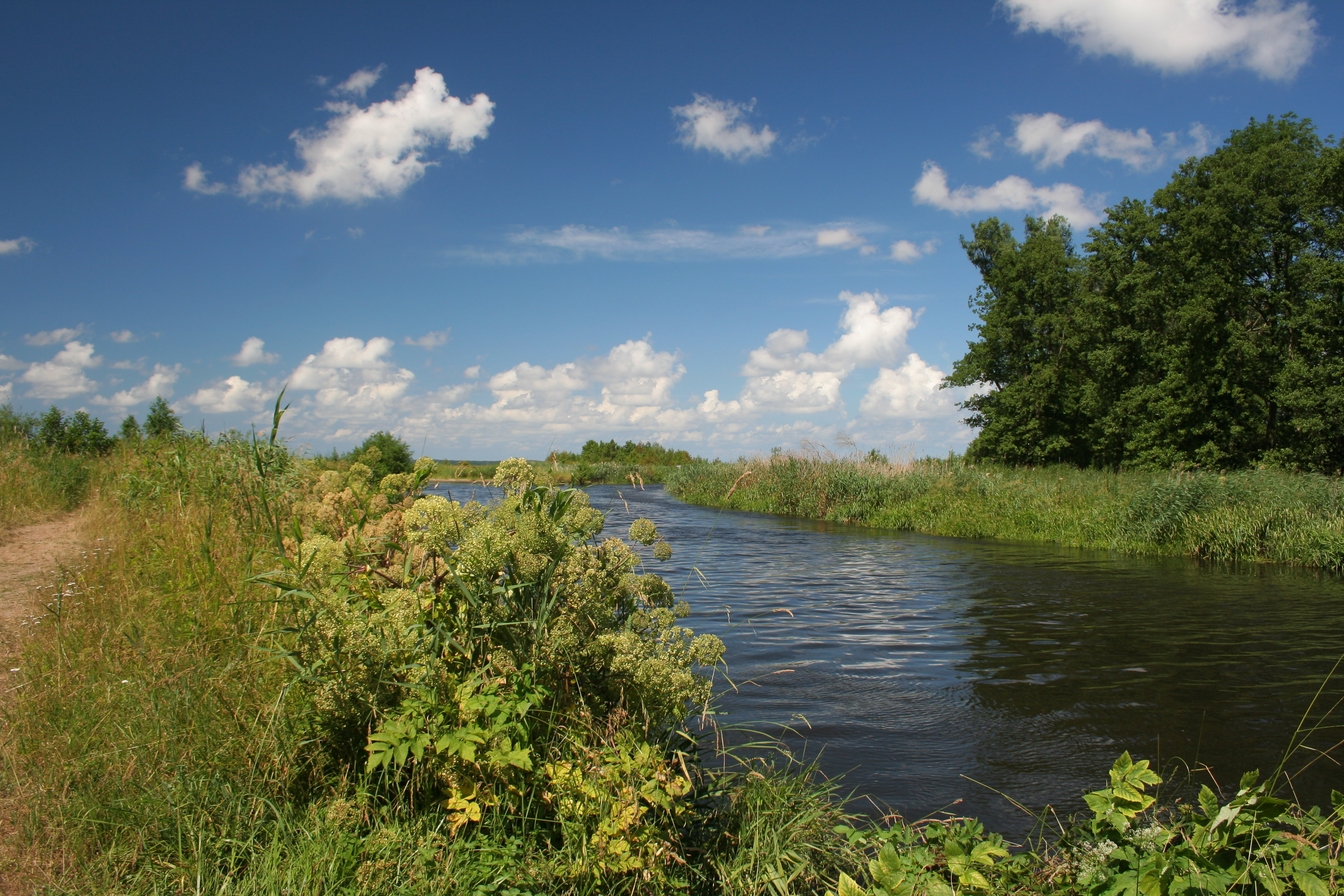 Łeba in Słowiński National Park.